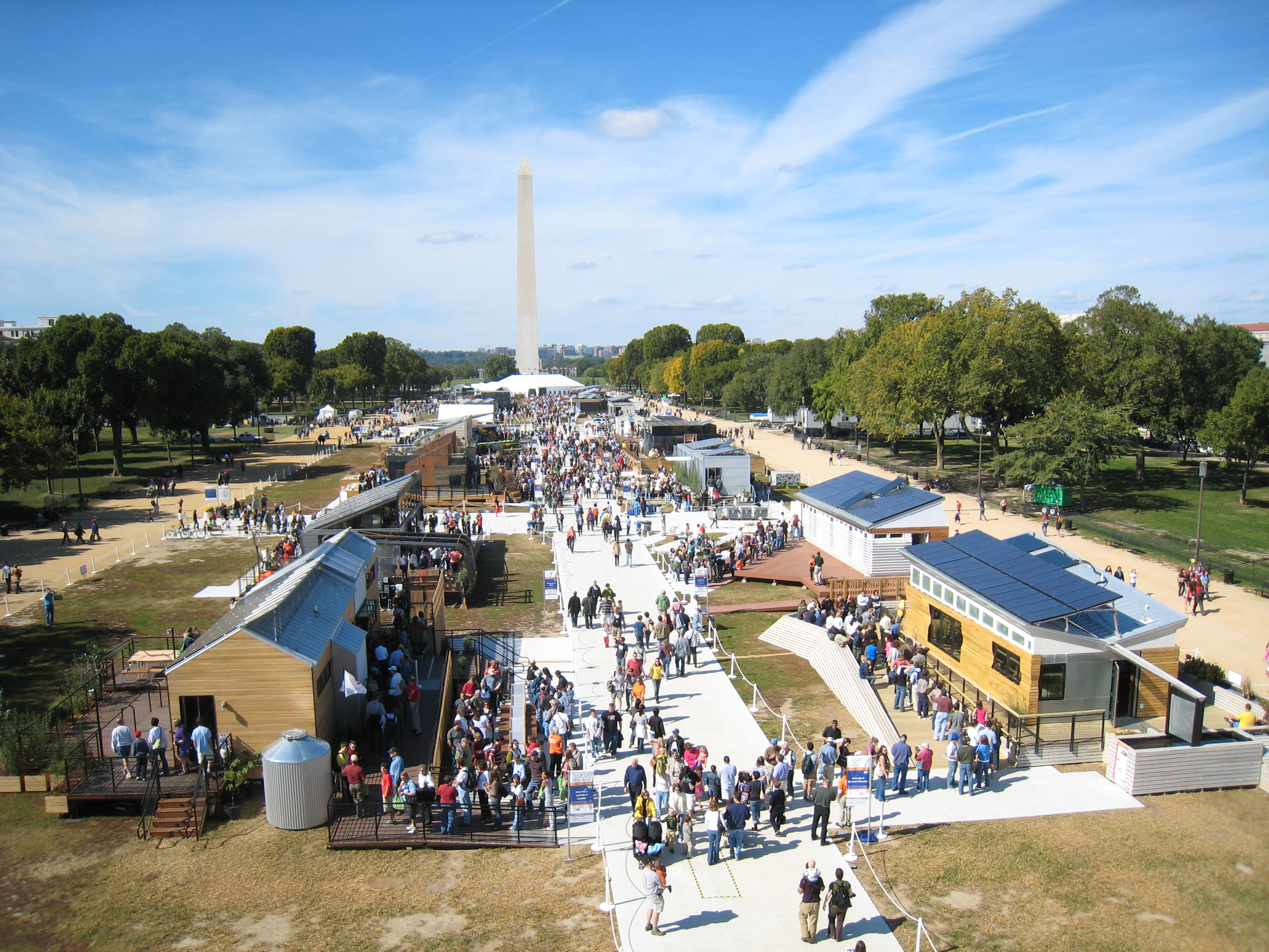 This aerial photo shows the public touring 20 solar-powered houses displayed on the National Mall in Washington, D.C., for Solar Decathlon 2009.